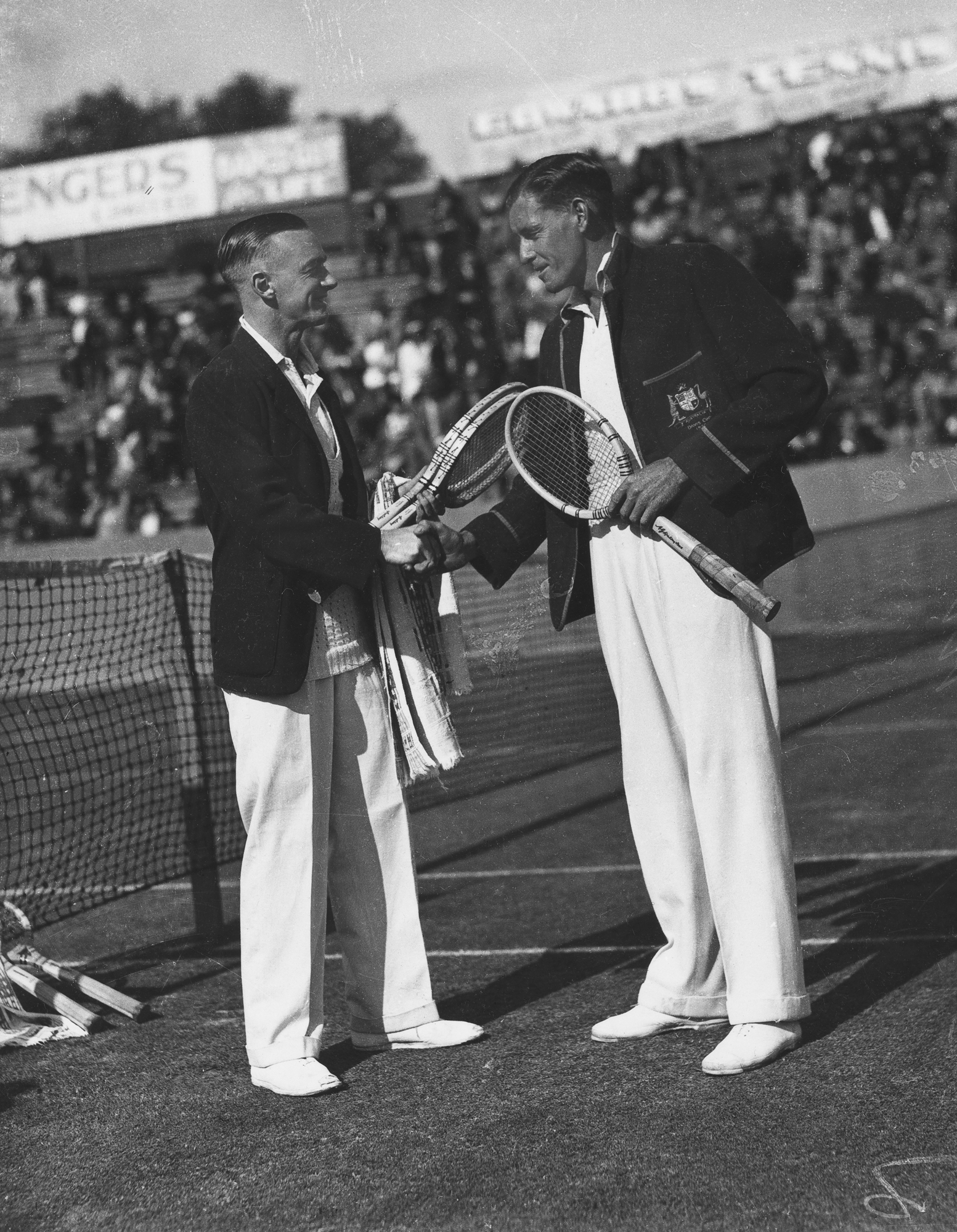 Australian tennis players Harry Hopman (left) and Edgar Moon (right) in Brisbane, Australia